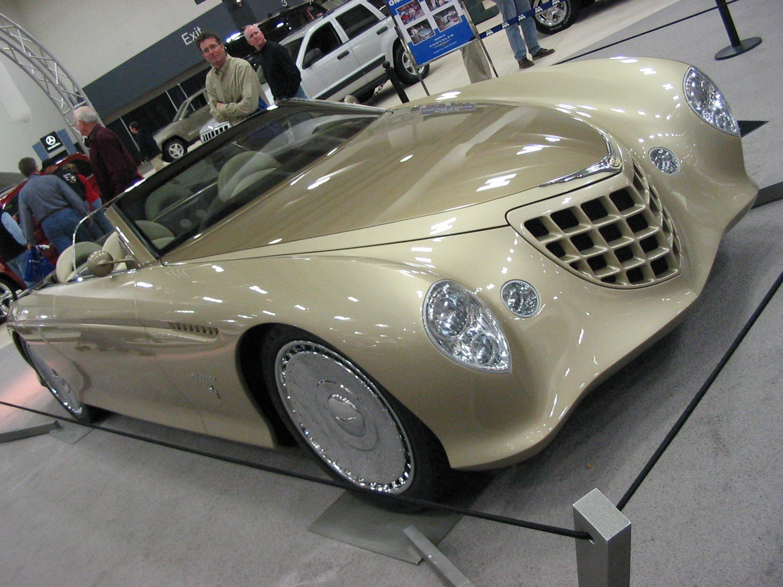 Chrysler Phaeton at the San Francisco International Auto Show in 2005.